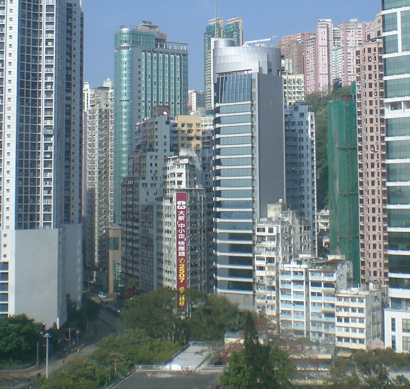 銅鑼灣 香港中央圖書館外望風景 大新銀行集團 香港銅鑼灣海景酒店 百樂商業大廈